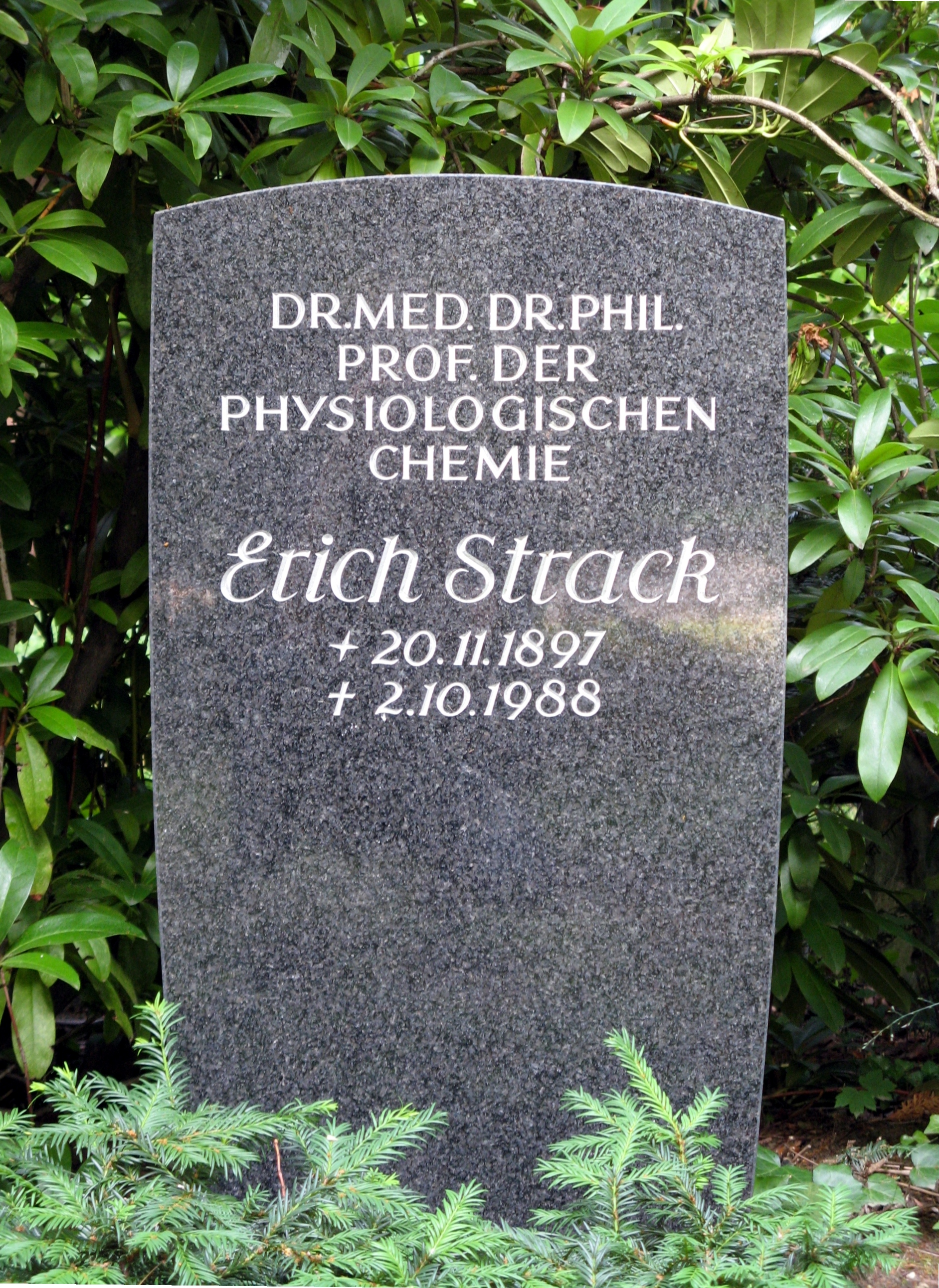 Gravestone of German chemist Erich Strack at Südfriedhof (south cemetery) Leipzig